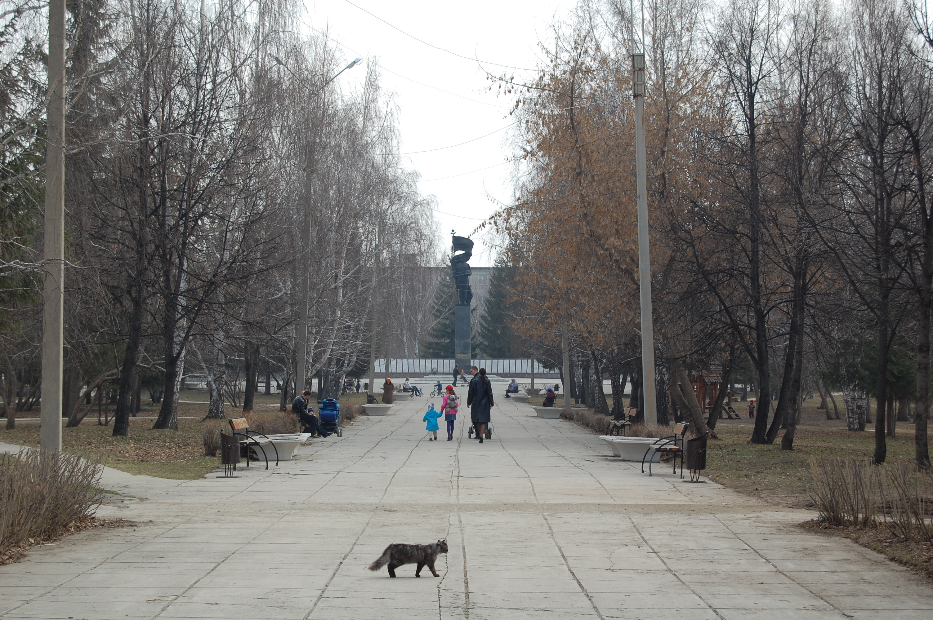 The central park in the town of Chebarkul, Russia.